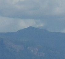 The Phou Bia